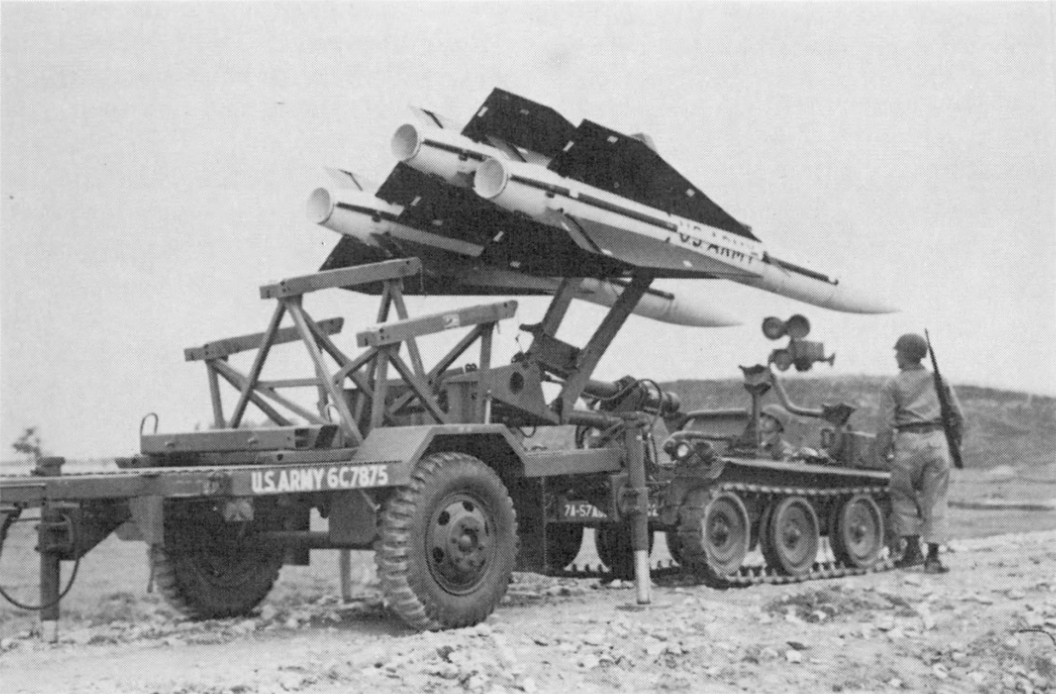 Hawk missiles being loaded on the launcher